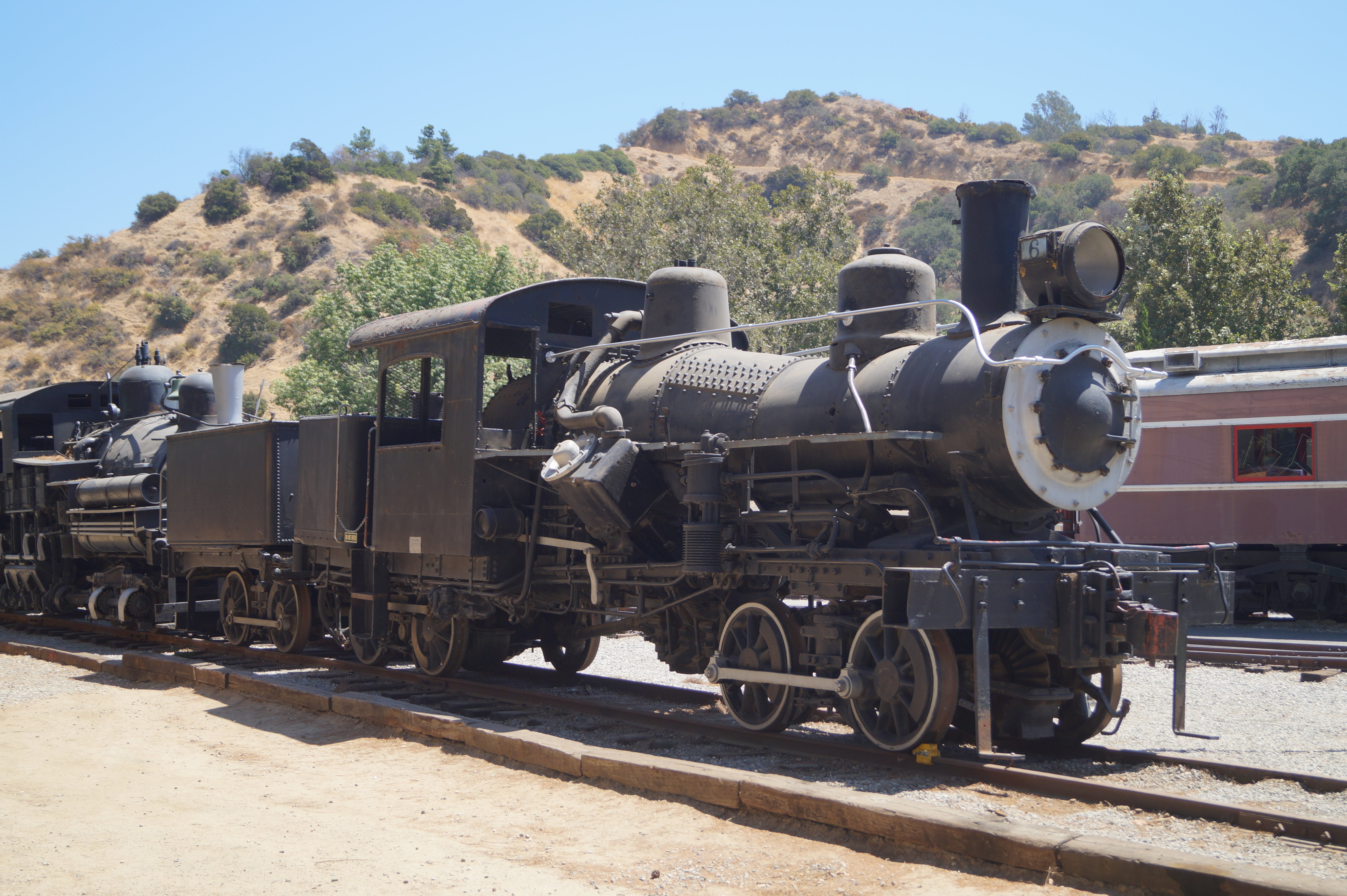 Travel Town Museum is a transport museum dedicated in the northwest corner of Los Angeles, California's Griffith Park. The history of railroad transportation in the western United States from 1880 to the 1930s is the primary focus of the museum's collection, with an emphasis on railroading in Southern California and the Los Angeles area.